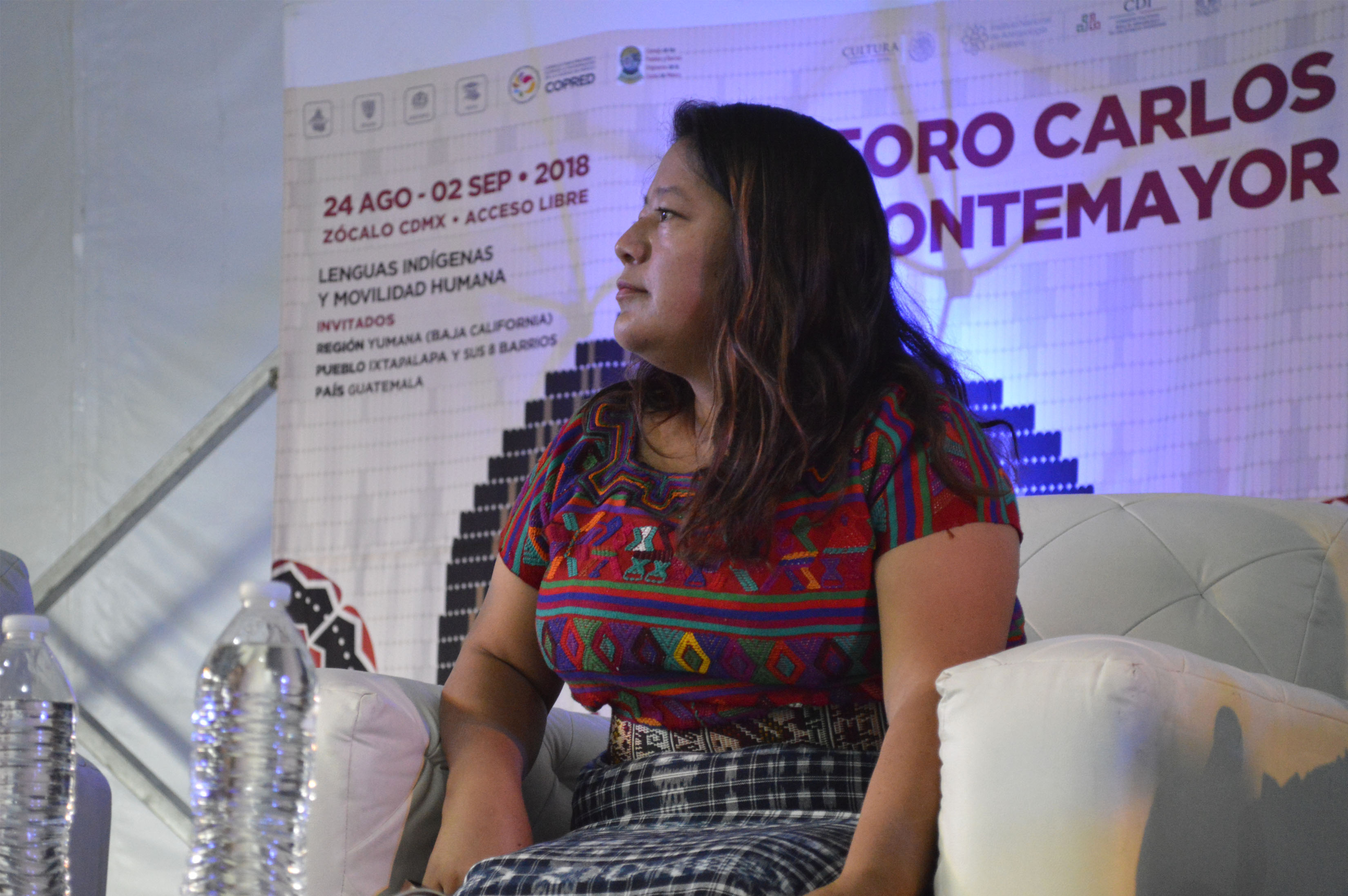 Sunday, September 2, 2018 At the fifth Festival of Indigenous Cultures, Peoples and Original Neighborhoods, in the capital's square, the "Will for Life" paper was held: the struggles of indigenous women against extractivism, given by Gladys Tzul Tzul and with the presence of the Secretary of Culture from CDMX, Eduardo Vázquez Martín. Photo by: Ricardo Colin/Secretary of Culture